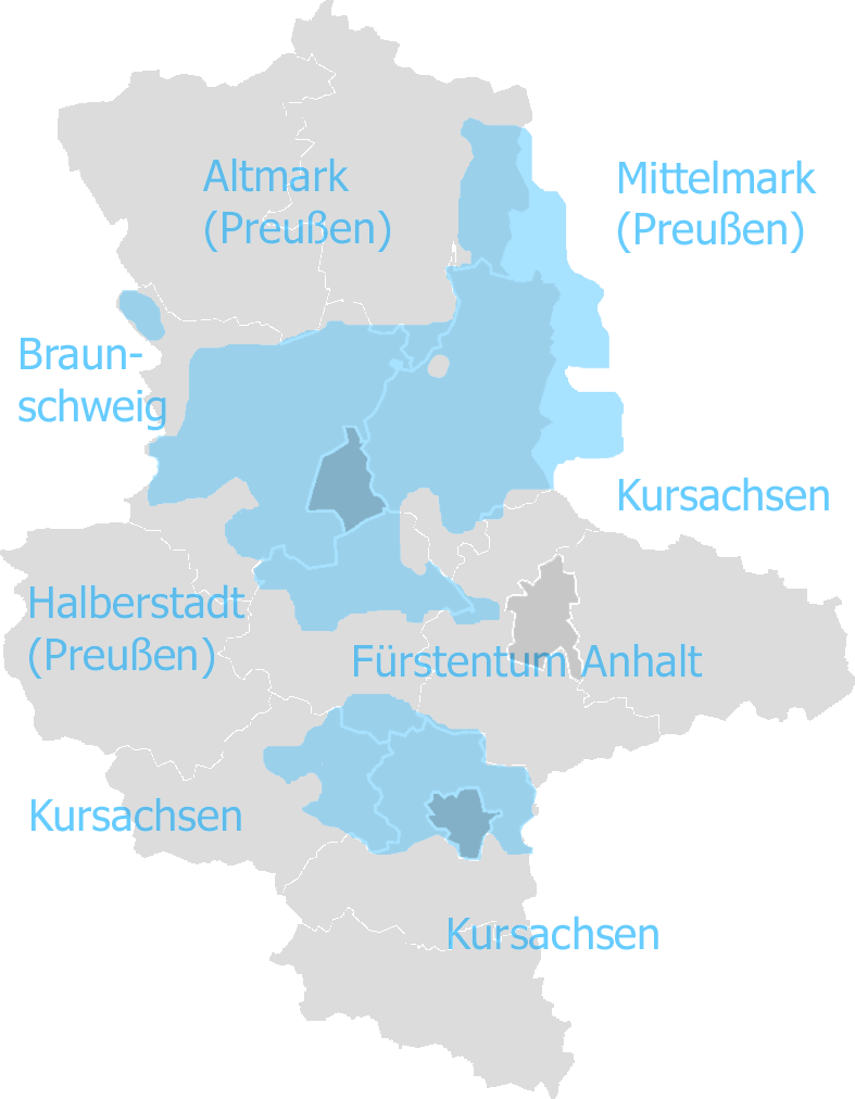 Herzogtum Magdeburg around 1760 (blue) over recent Saxony-Anhalt (gray) 2007